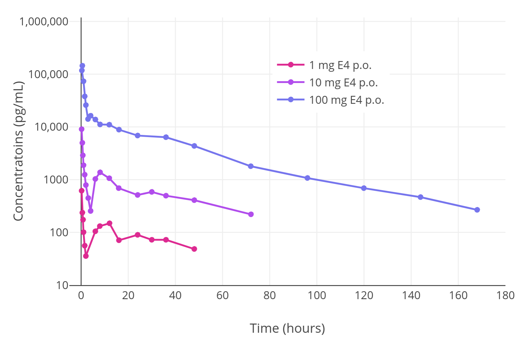 "Mean estetrol plasma levels (+standard deviation) after a single oral dose of 1, 10 and 100 mg estetrol in postmenopausal women." Source of the values: (2008). "Estetrol review: profile and potential clinical applications". Climacteric 11 Suppl 1: 47–58. PMID 18464023.